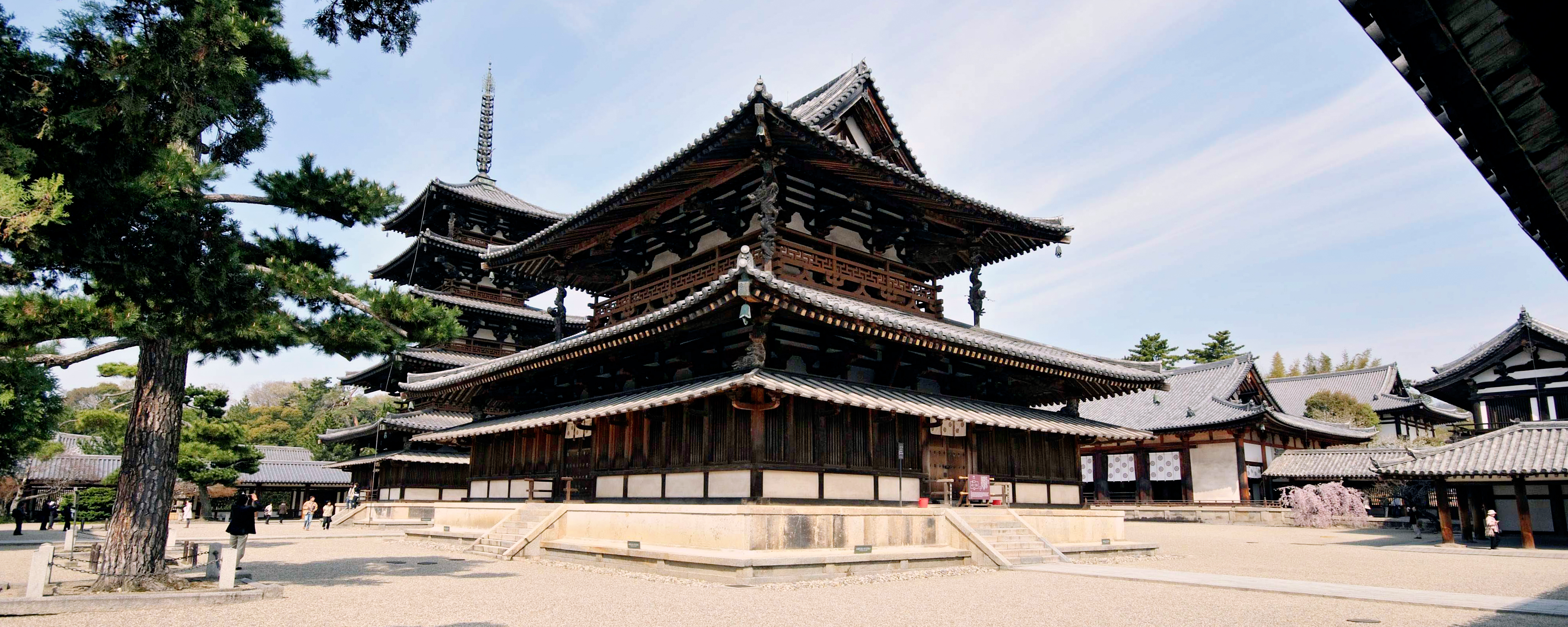 view of Saiin Garan